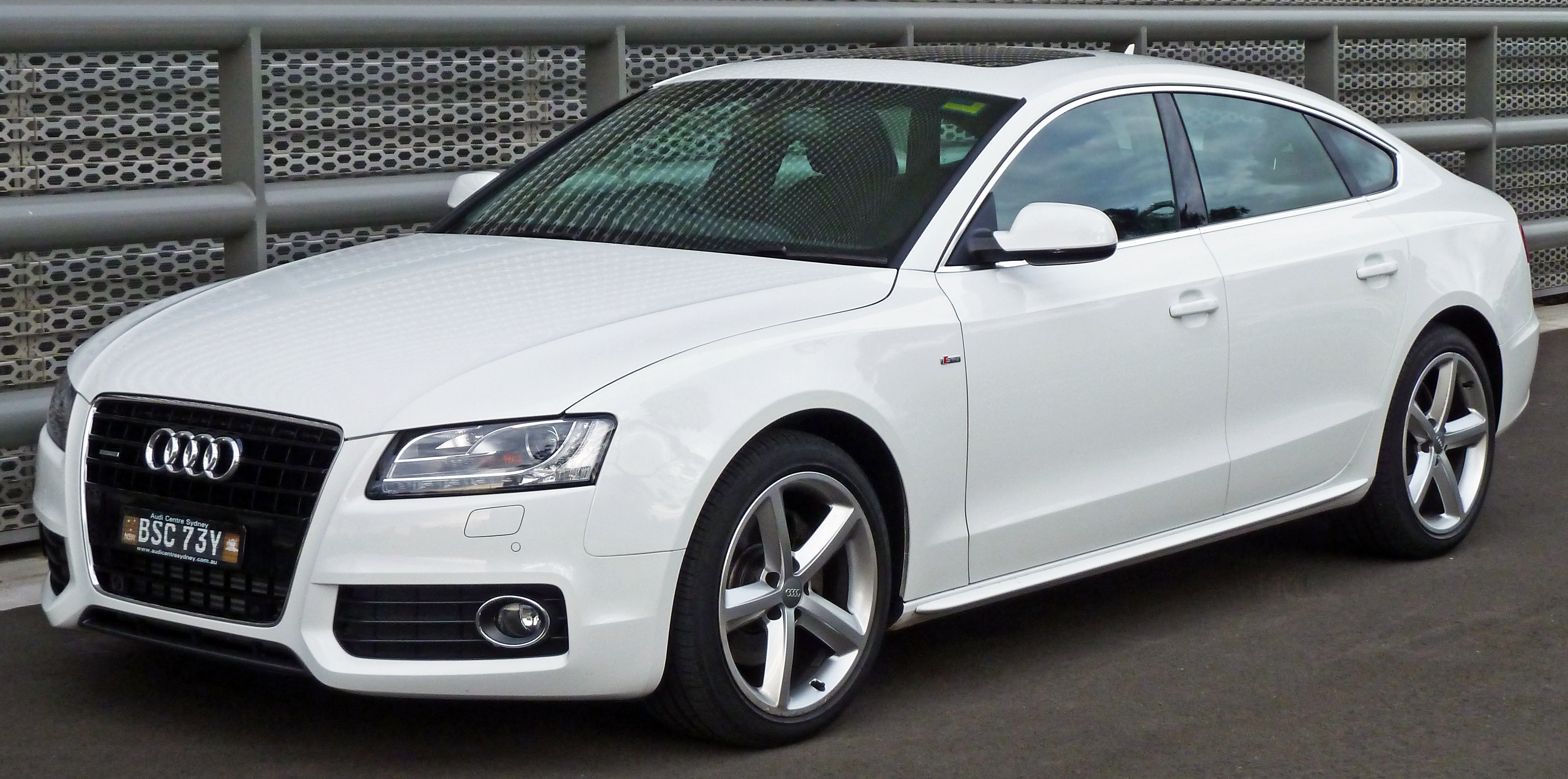 2010 Audi A5 (8T) 3.0 TDI quattro Sportback. Photographed at the Audi Centre Sydney, Zetland, New South Wales, Australia.